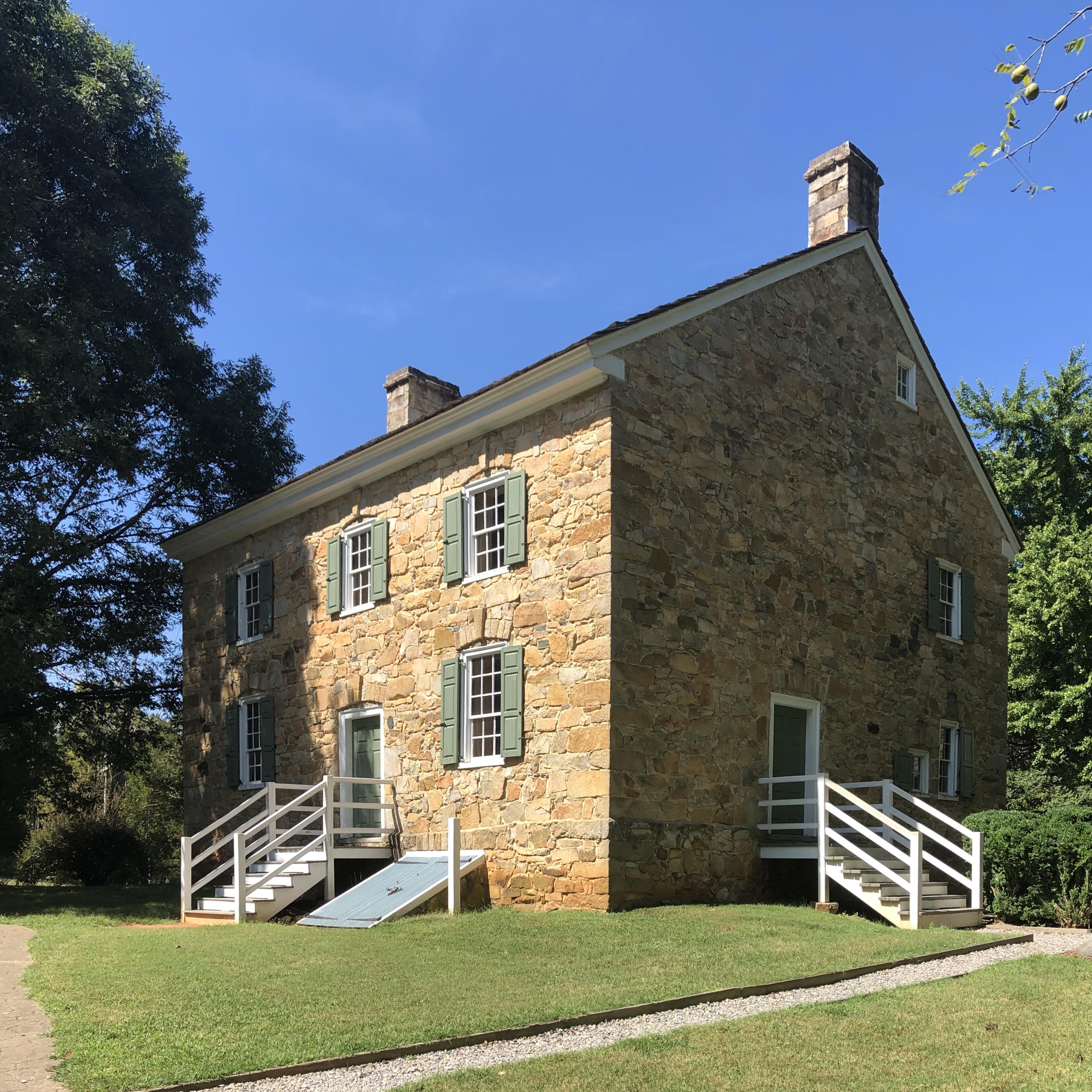 Alexander Homesite in the fall of 2019